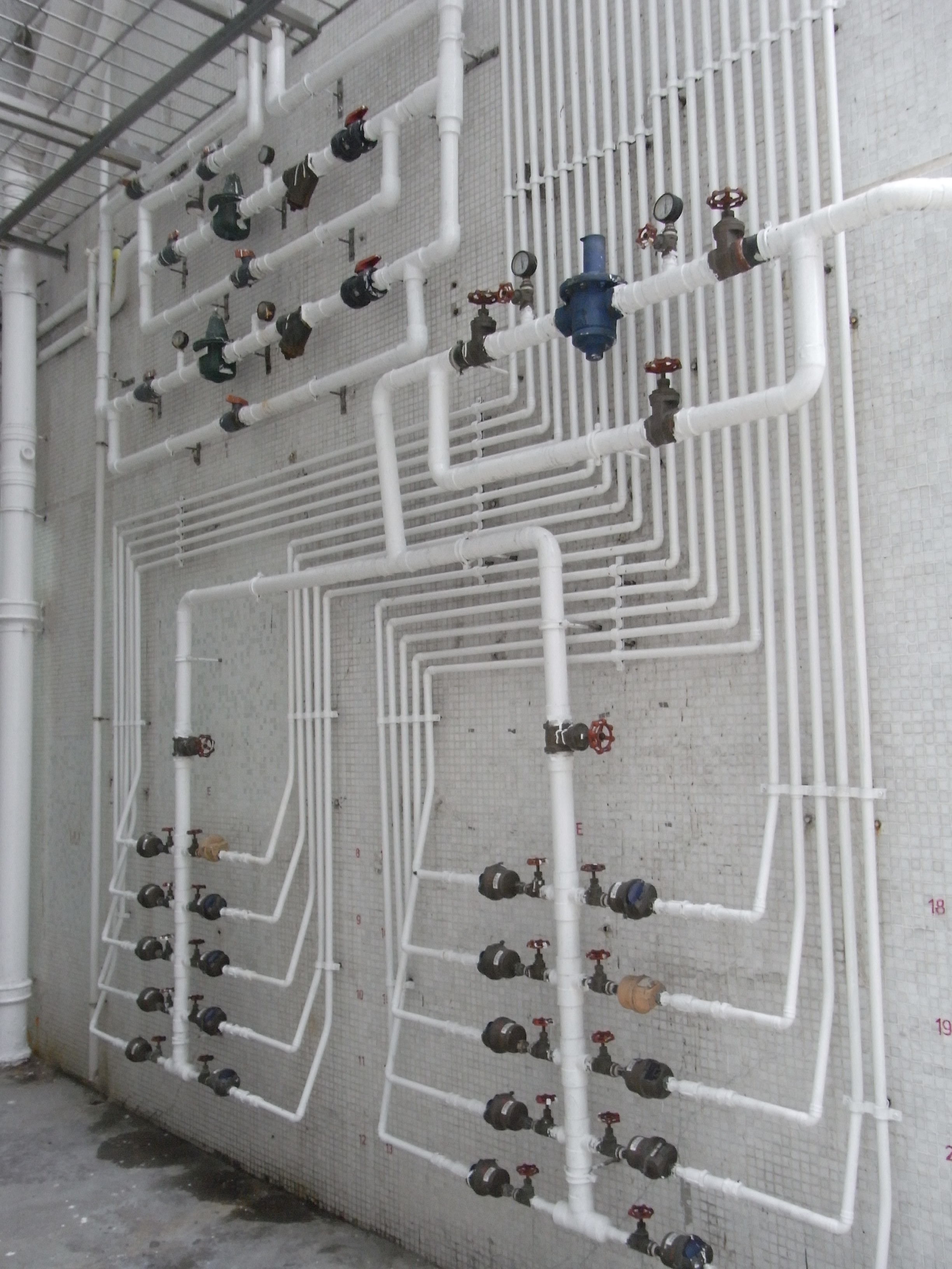 沙田 沙田第一城 食水管